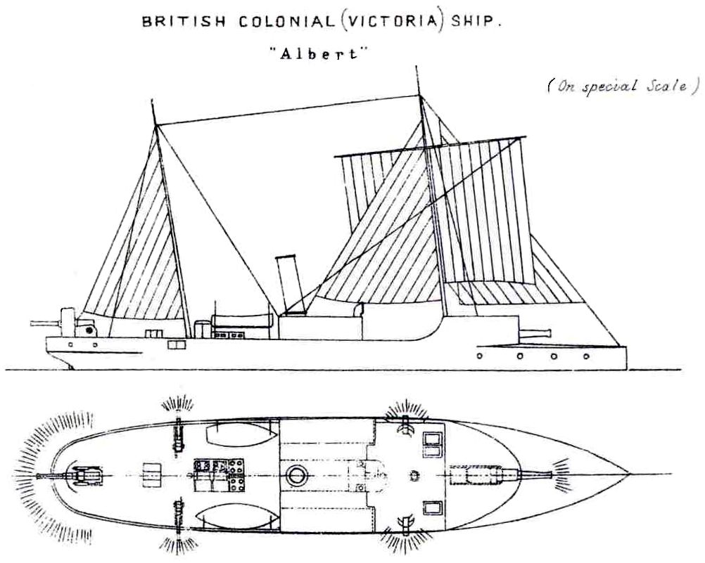 Diagrams showing starboard elevation and deck plan of Australian colonial gunboat HMVS Albert.